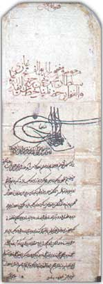 The adhanema issued by Mehmed II for religious freedom in Bosnia.